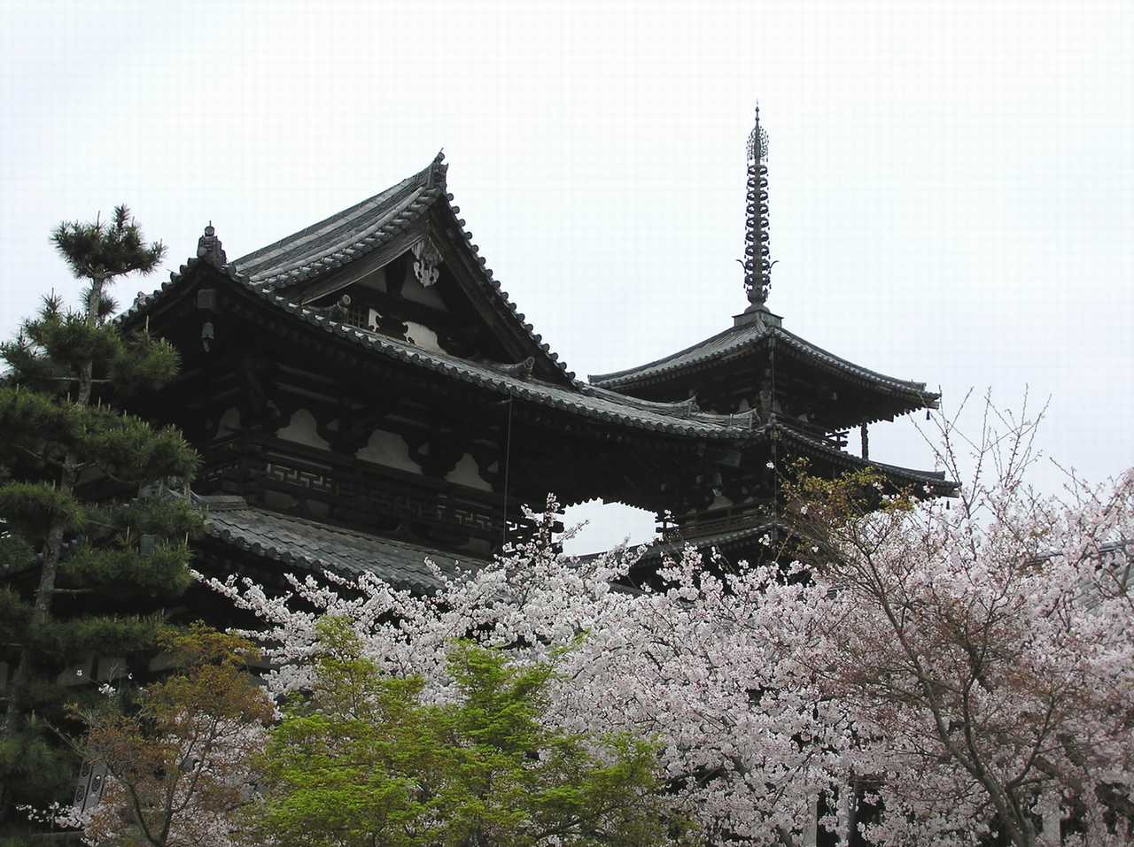 Horyu-ji at cherry blossom